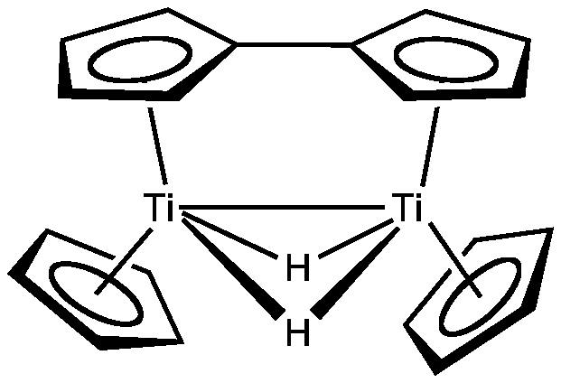 structure of "titanocene"